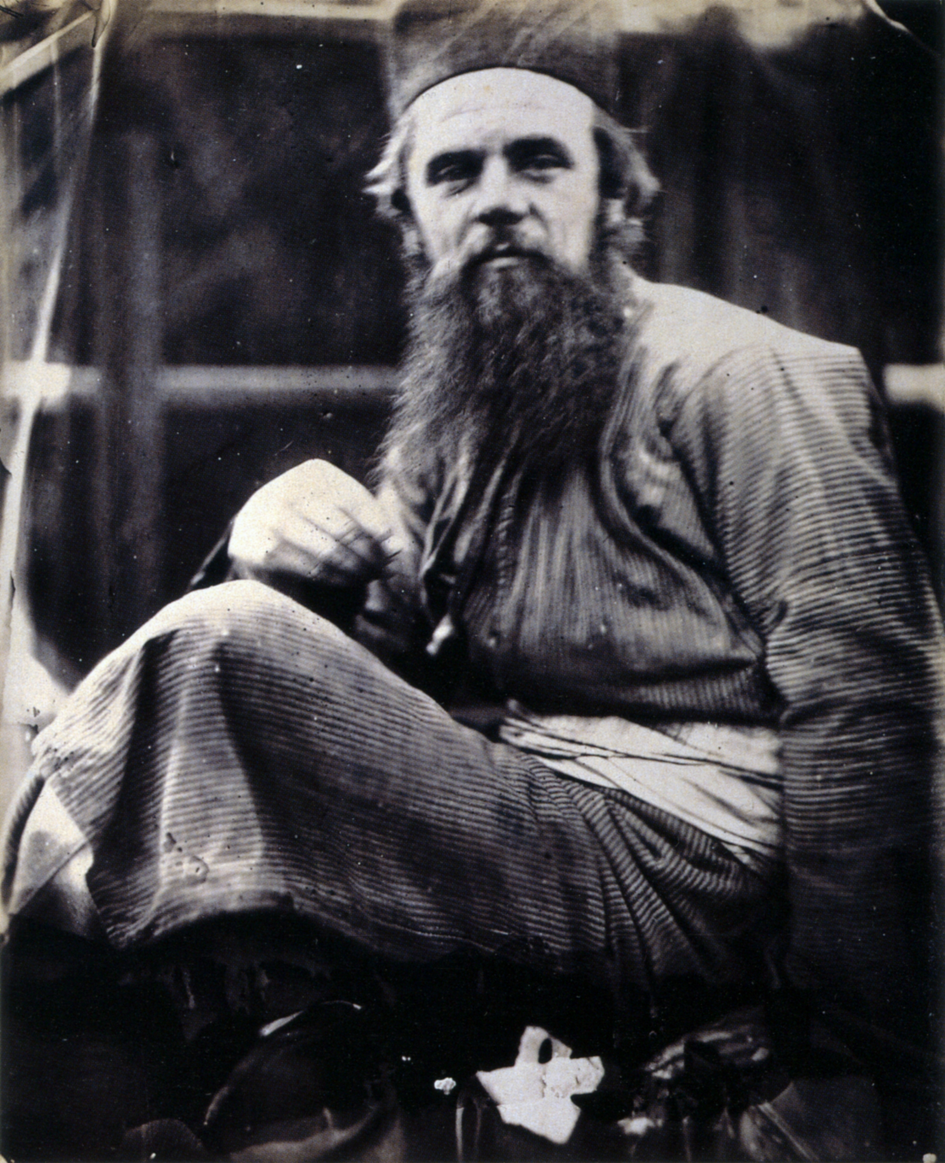 William Holman Hunt in his Eastern Dress. Taken on the lawn of Brent Lodge, Hendon. Albumen print, 259 x 208mm (10 1/4 x 8 1/4").